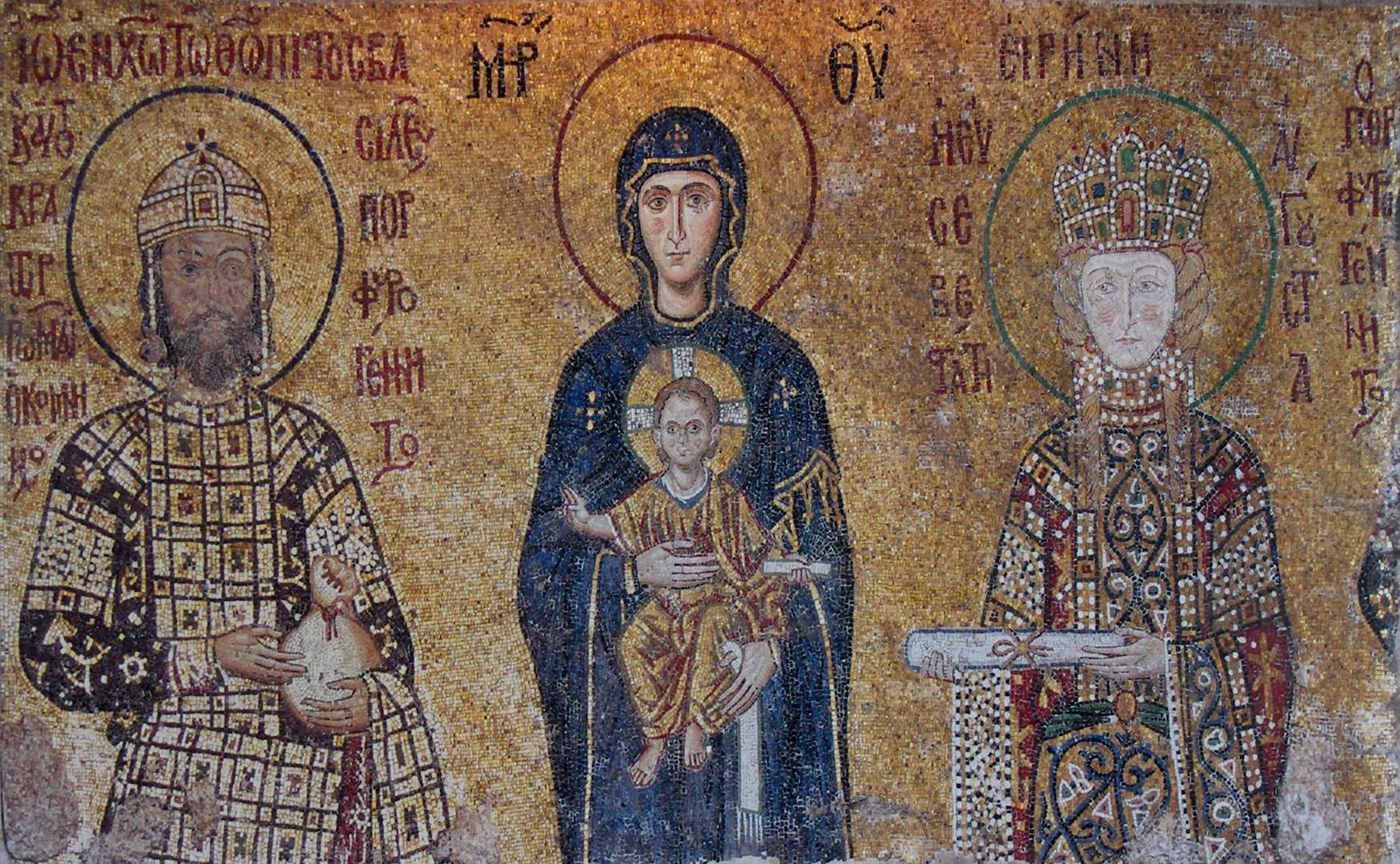 Hagia Sophia ; Commenos mosaic; Istanbul, Turkey. Includes monogram for Μητηρ Θεου ("Mother of God").